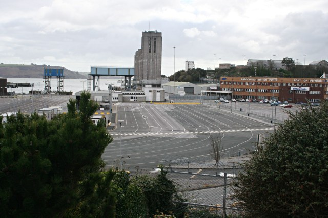 Plymouth Ferryport at Milbay Docks Mostly this is just a huge queuing area for lorries and cars. Without a ferry in dock the scene is dominated by the huge disused grain silo beyond the port. Ferries run from here to Roscoff in Brittany and Santander in Spain.